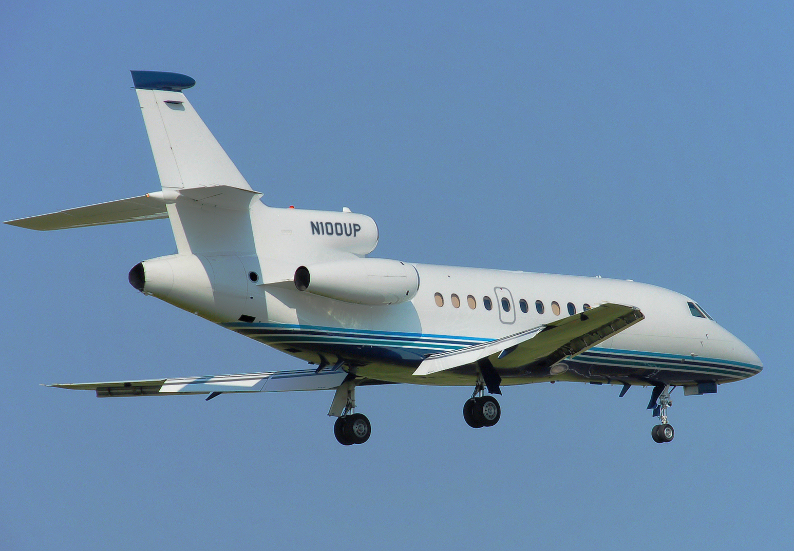 Private Dassault Falcon 900B (N100UP) lands at Birmingham International Airport, England. Built 1988.